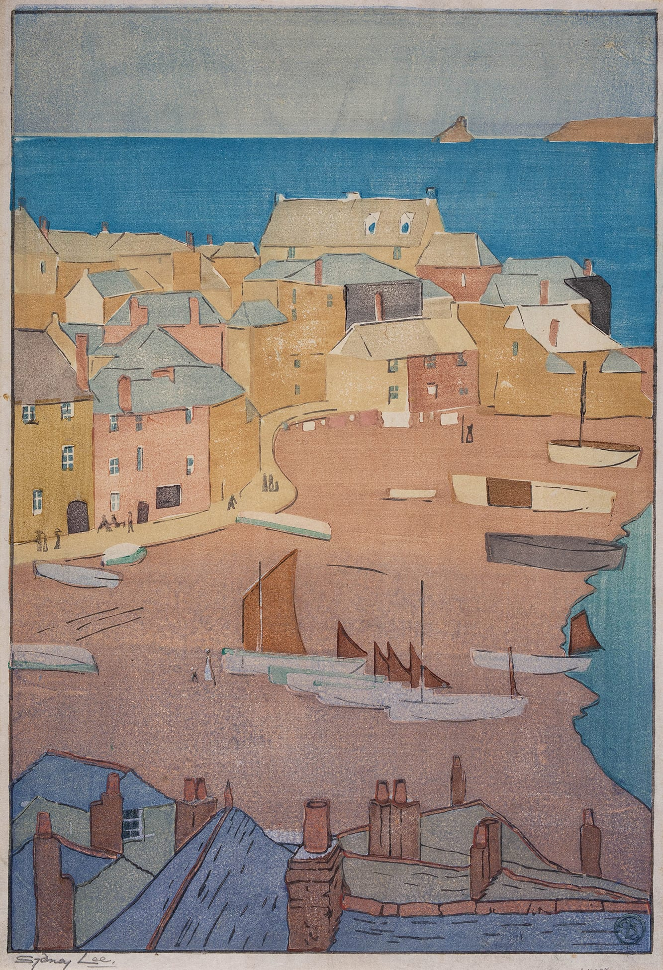 Offered for sale by Abbott and Holder in January 2020 when it was described as "LEE Sydney R.A. (1866-1949) ‘St Ives Harbour’ (RM.35). Woodcut printed in colours. 1905-10. Signed. 14.75x10 inches."